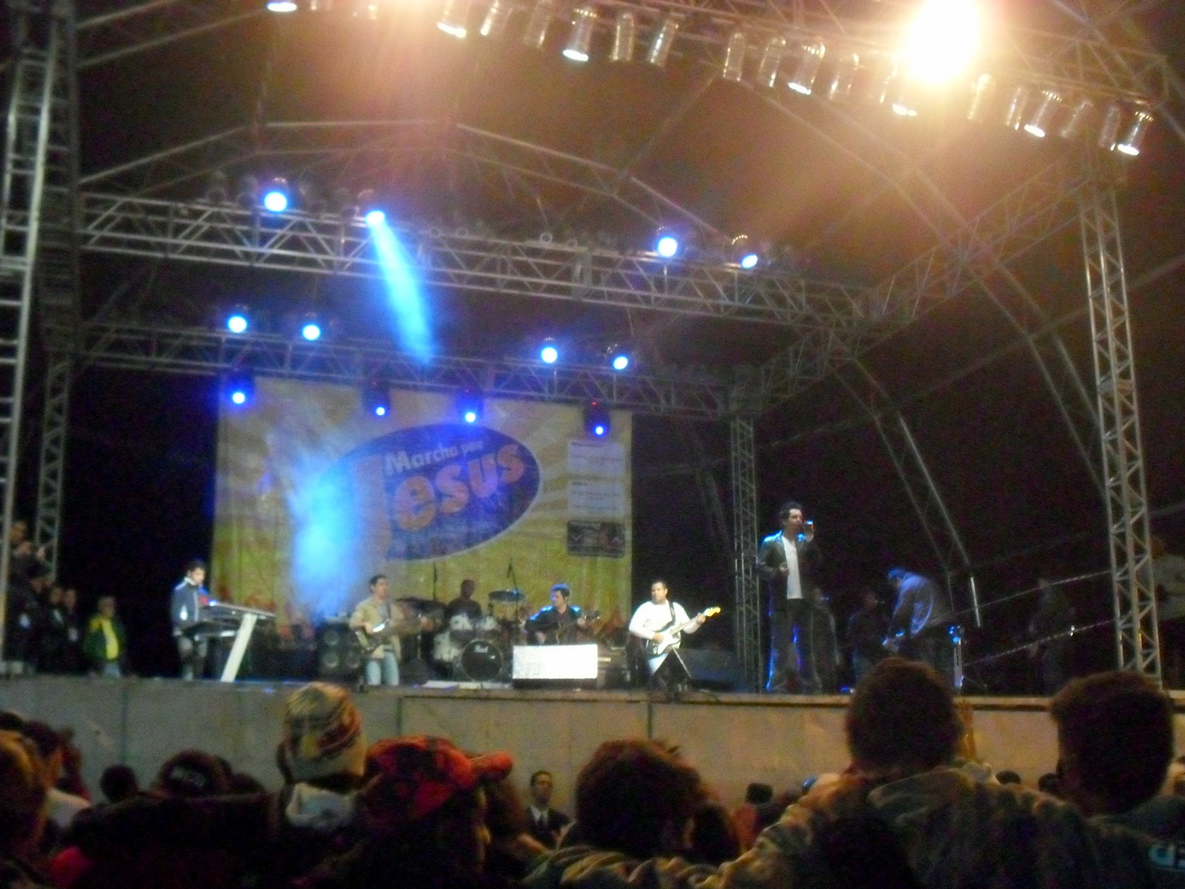 March for Jesus - Poá-SP - 2010